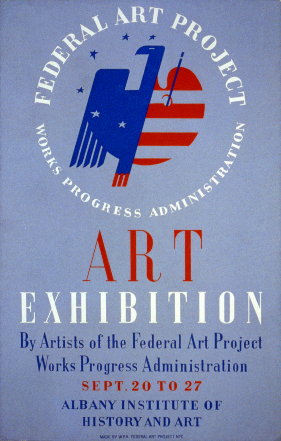 Poster for a Federal Art Project (part of the Works Progress Administration) art show at the Albany Institute of History and Art in Albany, New York, United States